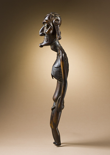 Easter Island (Rapa Nui), circa 1830 Sculpture Wood, bird bone, obsidian, and traces of pigment 17 3/4 x 3 1/2 x 4 in. (45.09 x 8.89 x 10.16 cm) Purchased with funds provided by the Eli and Edythe Broad Foundation with additional funding by Jane and Terry Semel, the David Bohnett Foundation, Camilla Chandler Frost, Gayle and Edward P. Roski and The Ahmanson Foundation (M.2008.66.6) Art of the Pacific Currently on public view: Ahmanson Building, floor 1